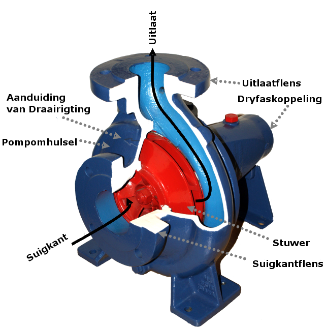 A centrifugal pump with Afrikaans labels.